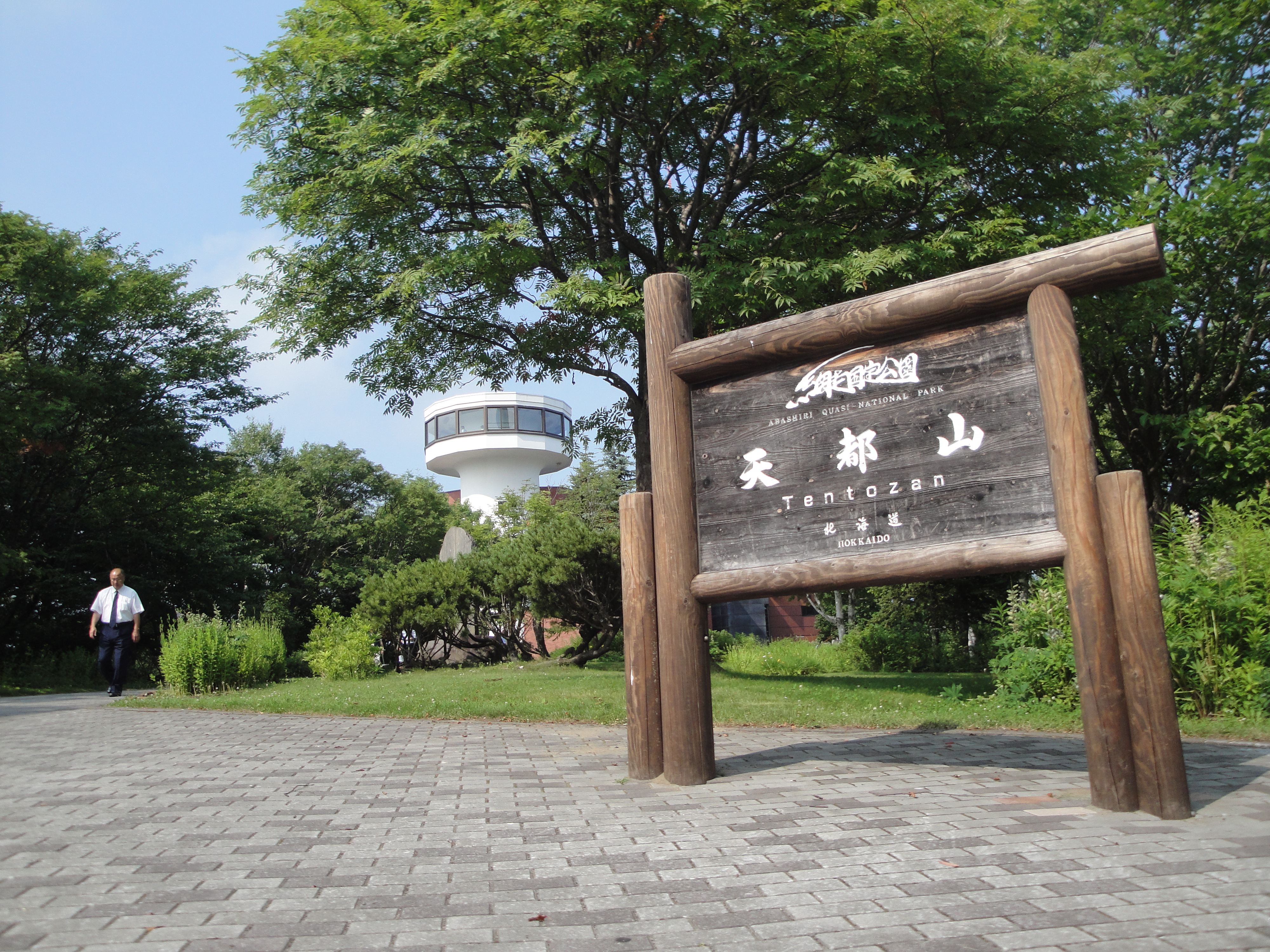 Nameplate of Mount Tento 中文（台灣）: 天都山名牌，背景遠處為天都山展望台